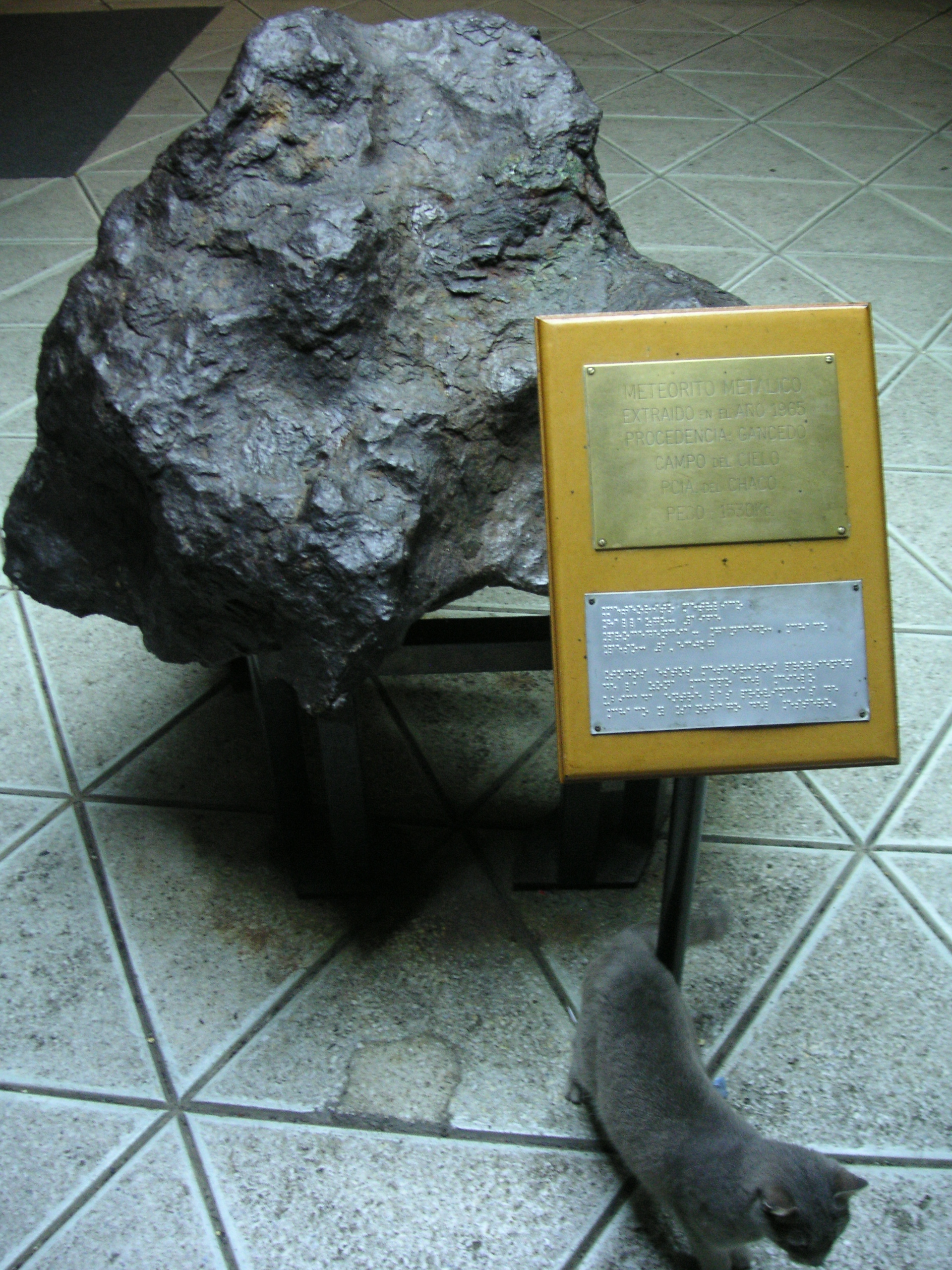 A Campo del Cielo meteorite and a cat. Guess who weights 1530Kg. :)